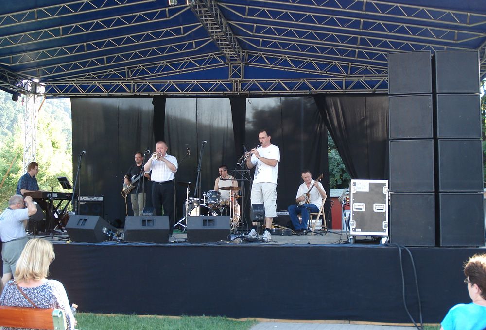 The Miskolc Dixieland Band (orchestral test), 2010, Miskolc, Hungary